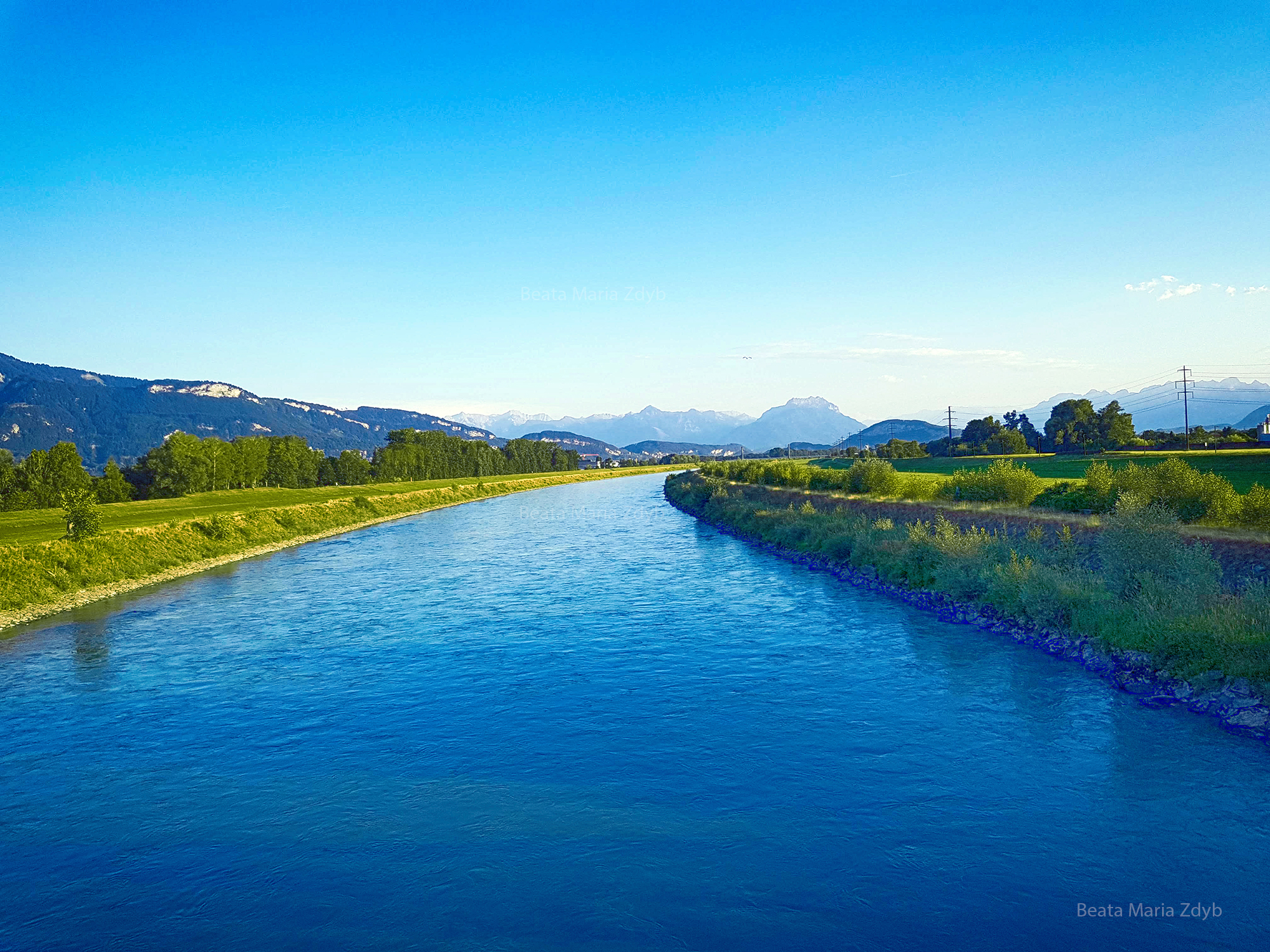 The Rhine river seen from the Widnau-Lustenau bridge in Switzerland.